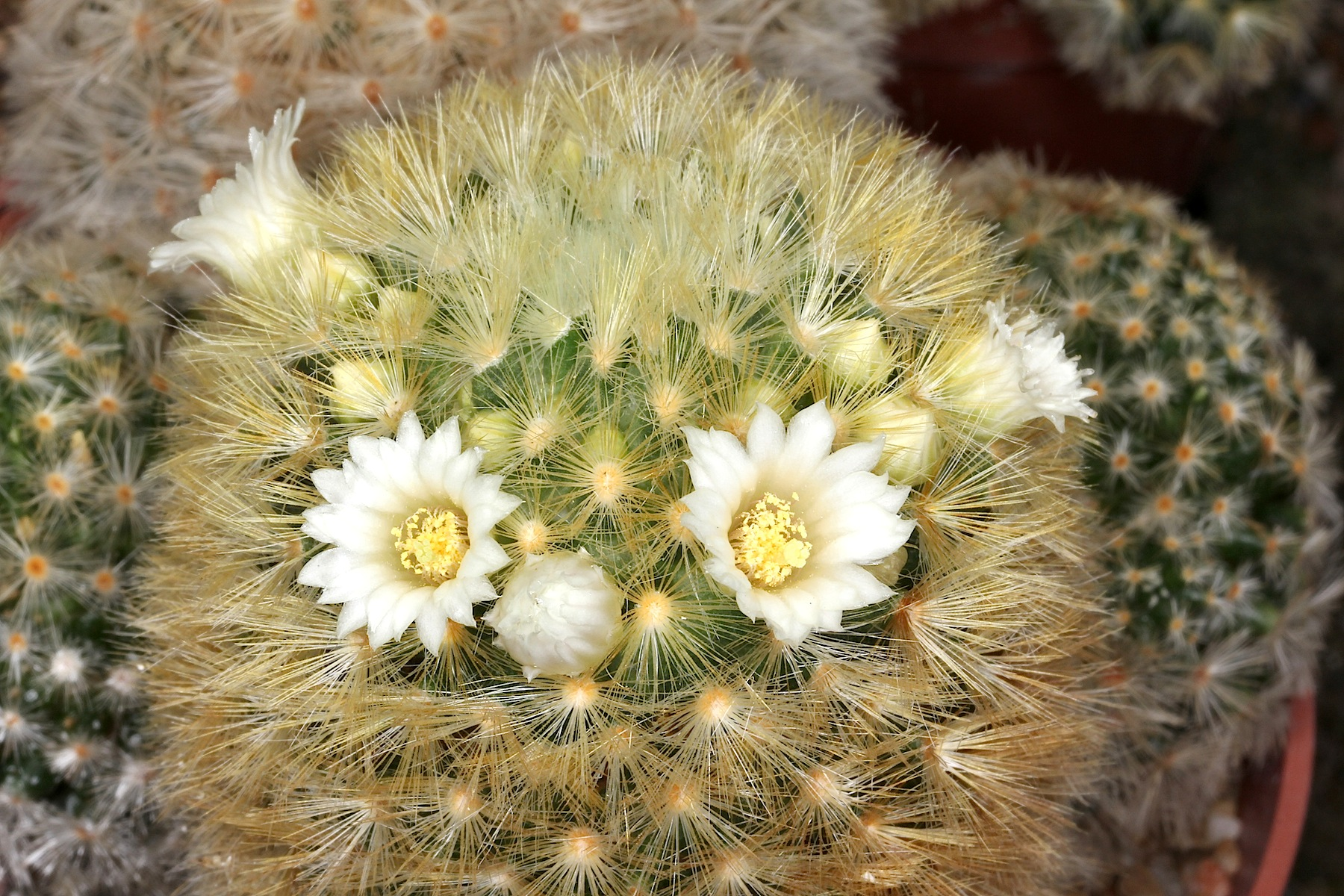 Mammillaria carmenae